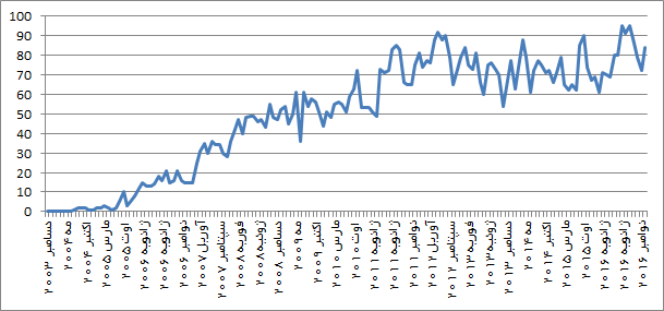 Number of users with more than 100 edits in persian Wikipedia (Dec 2003 - Dec 2016)